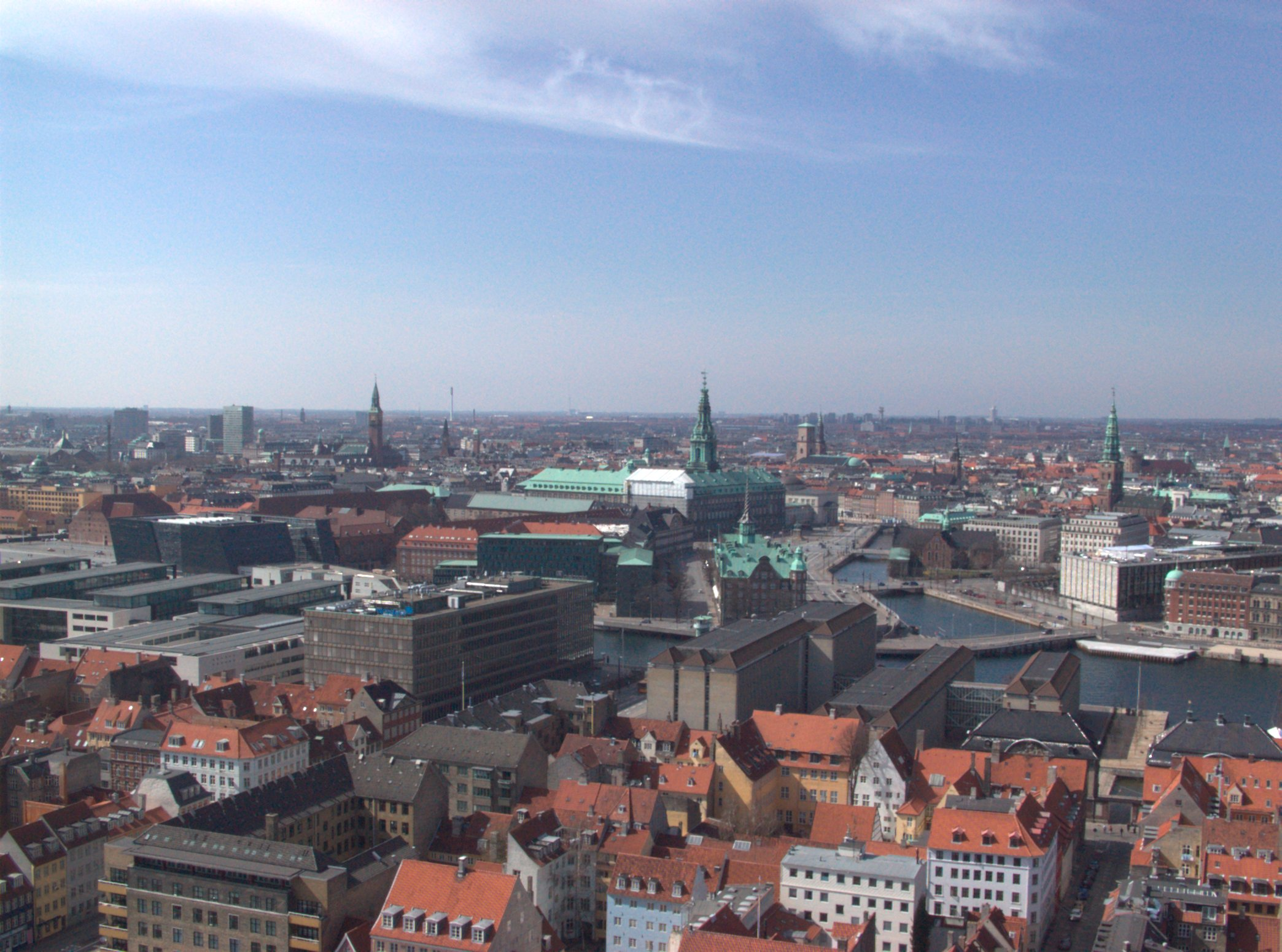 A view over Copenhagen, Denmark, as seen from the Church of Our Saviour (Vor Frelsers Kirke).